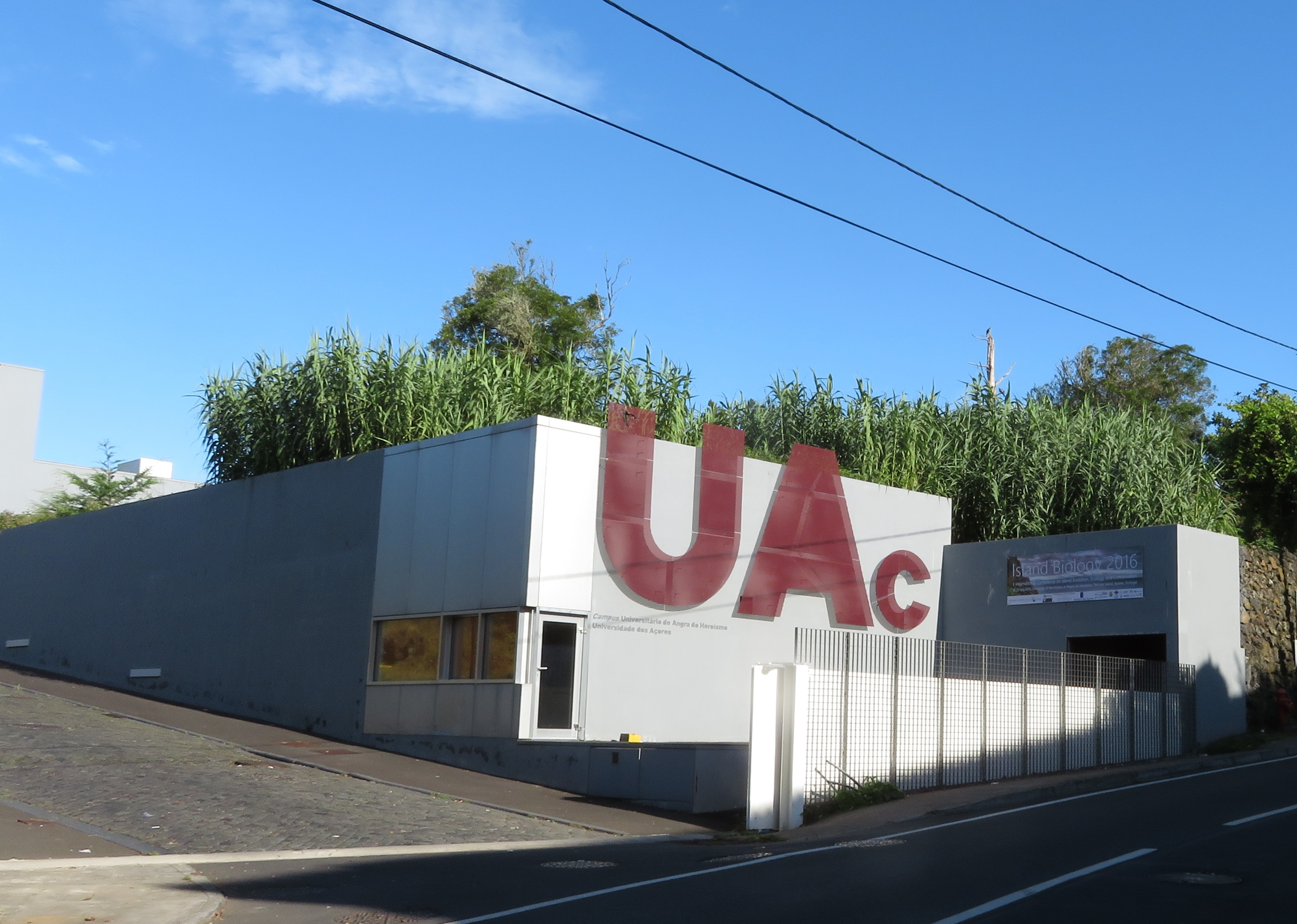 Entrance, University Campus, Angra do Heroismo, Terceira, Portugal